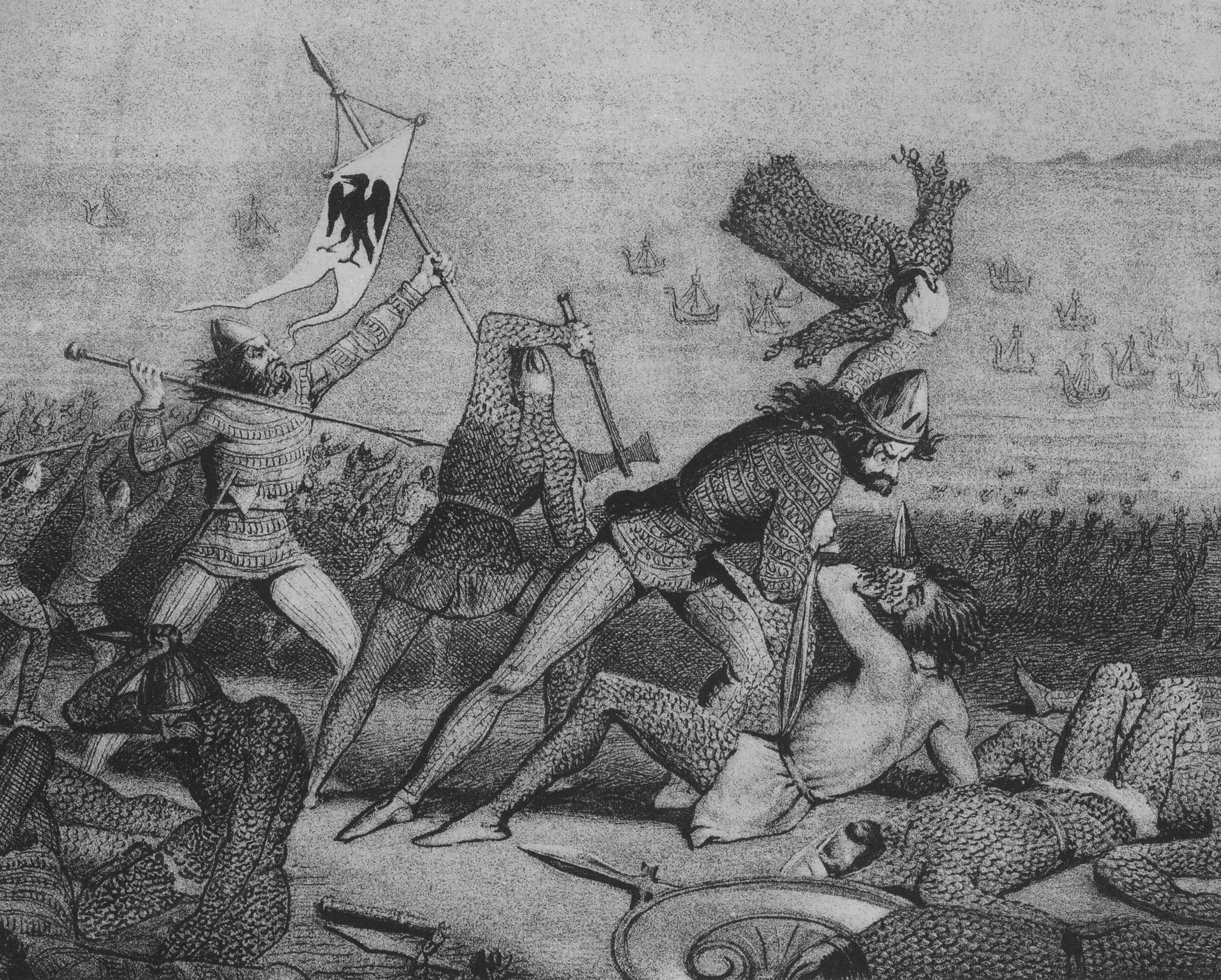 "The battle of Clontarf, April 23rd, 1014, dedicated to William Smith O'Brien, Esq., M.P. for the County of Limerick". The work is a lithograph or mezzotint by W.H. Holbrooke, of a drawing by Henry MacManus.